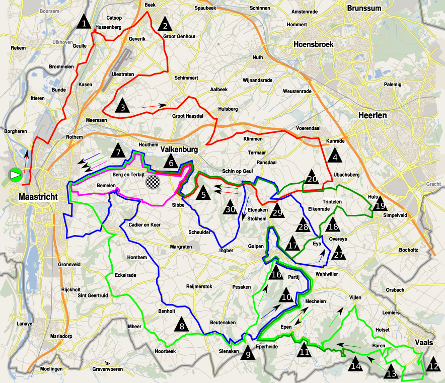 Map of the Amstel Gold Race 2015. Begin of the route in red, begin of the first lap in light green, end of the first lap in dark green, second lap in blue, third lap in pink.